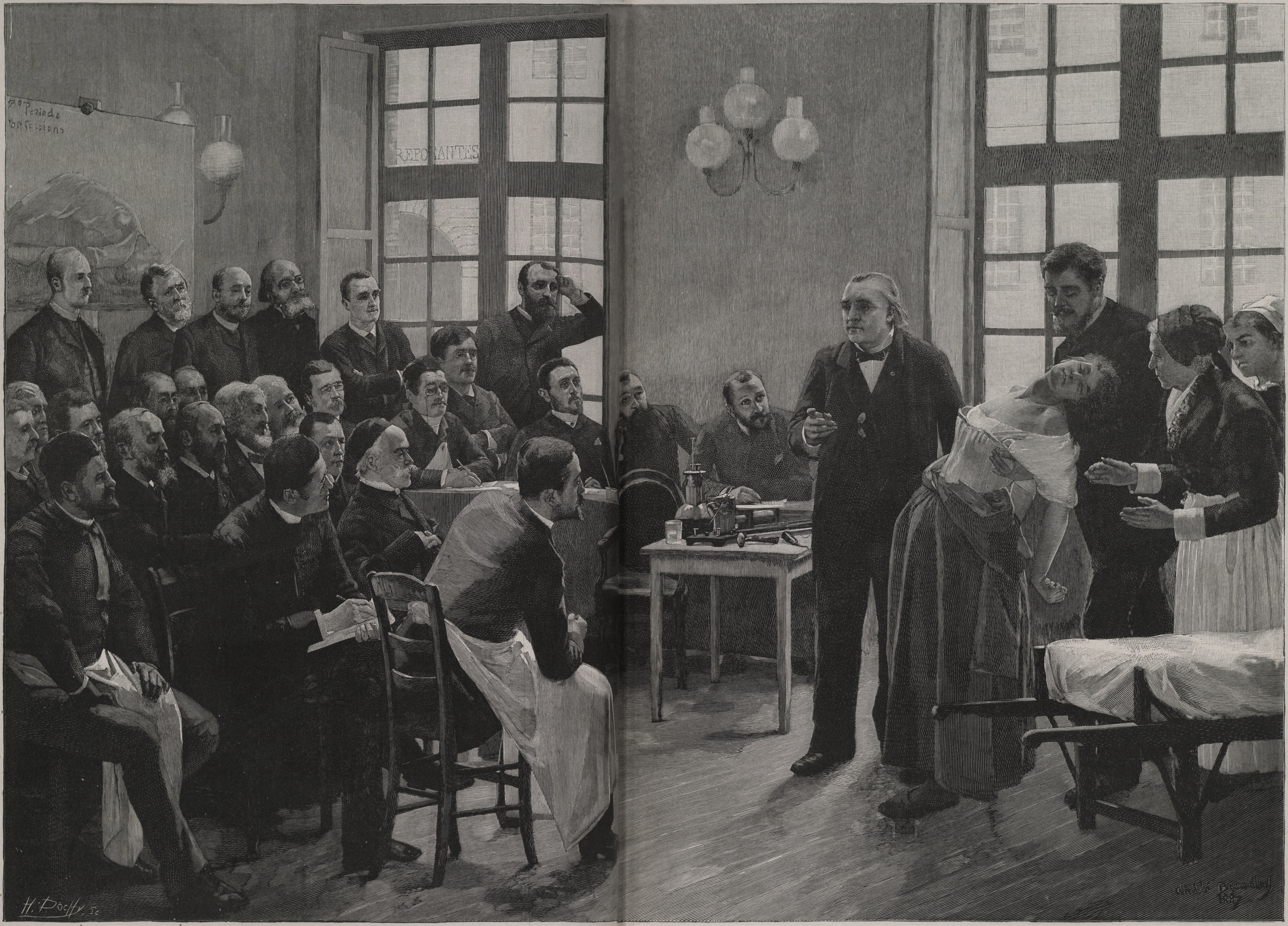 This print reproduces a famous painting which was exhibited during the World Fair, and which represents the famous physician Charcot giving a lecture on hysteria. Charcot was a very renowned professor, and specialized in mental diseases and hysteria in particular. He taught the young Sigmund Freud, among many others. In this image the hysterical woman is fainting in the arms of Charcot's colleague, while the professor, standing next to her, is giving his lecture.